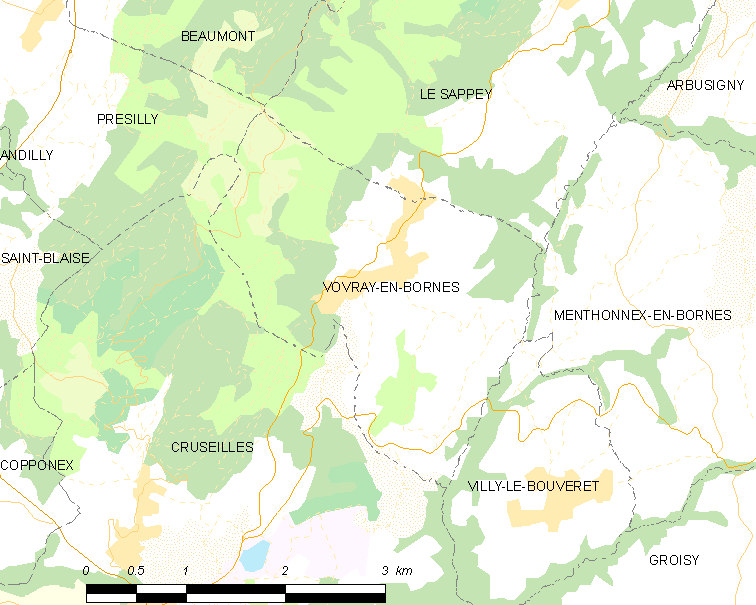 Map of French municipality Vovray-en-Bornes